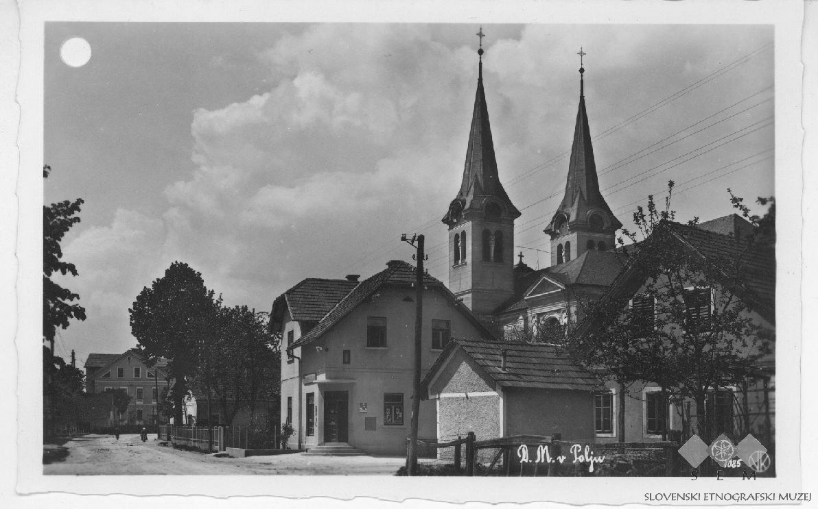 Postcard of Ljubljana, Polje church